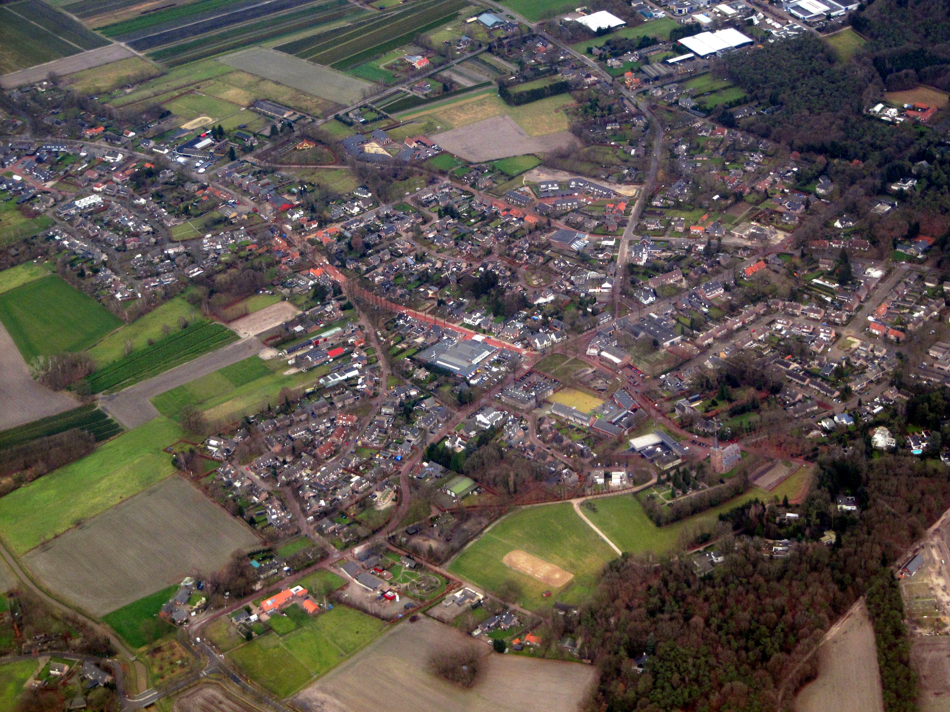 Vessem